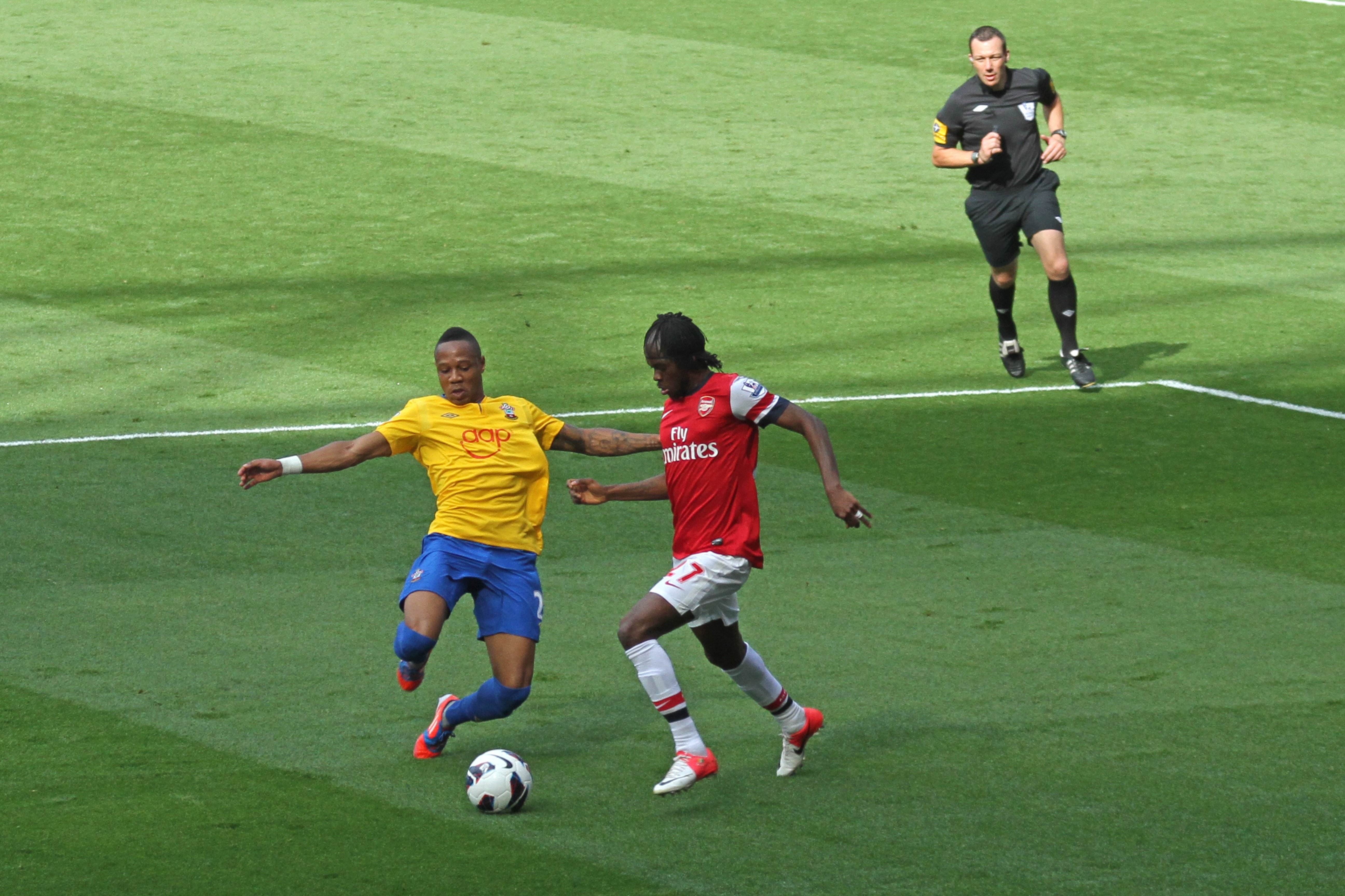 Gervinho of Arsenal defended by Nathaniel Clyne of Southampton. Referee Kevin Friend in the background.